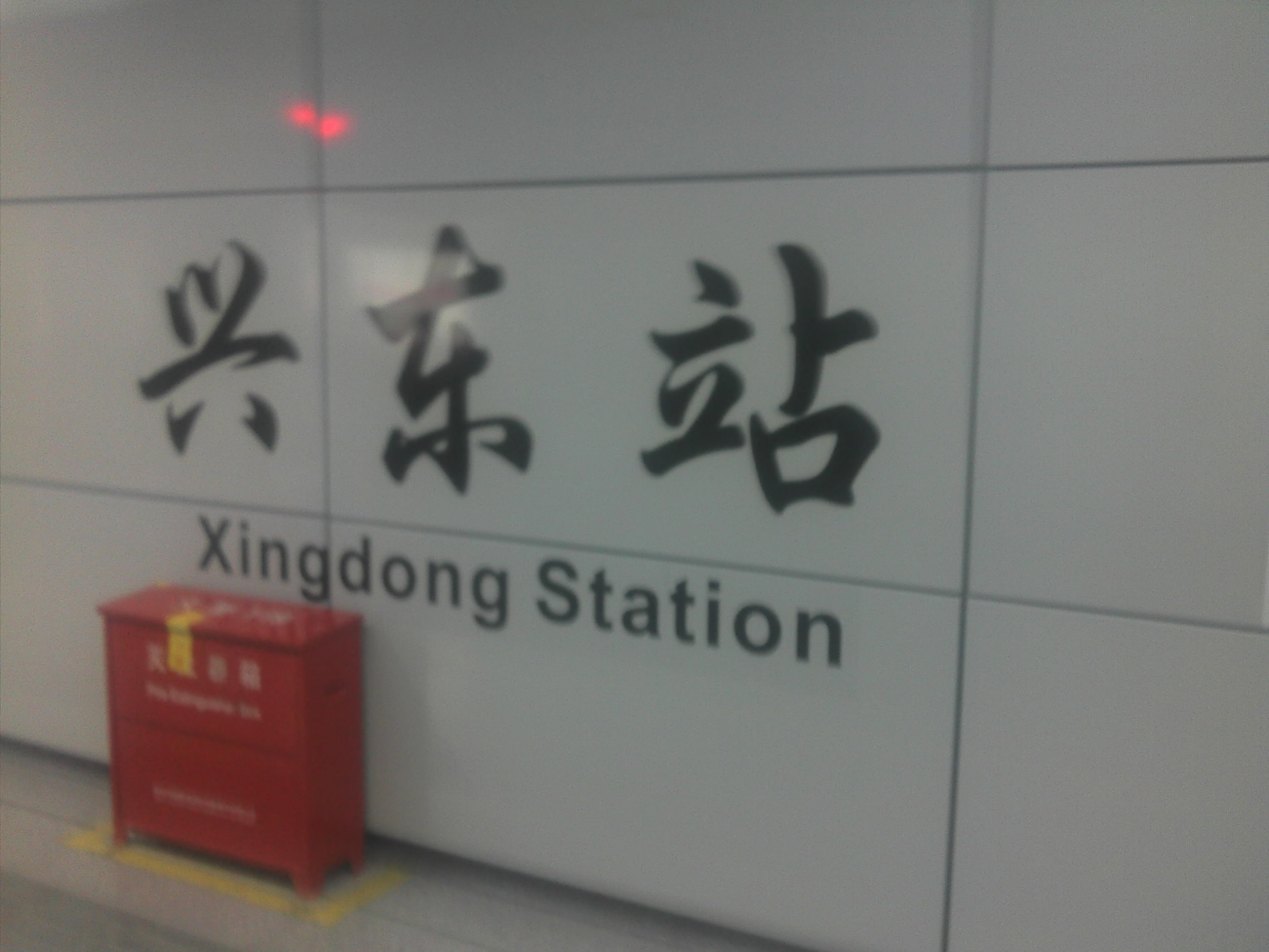 This photo was taken as Nov 19, 2011.